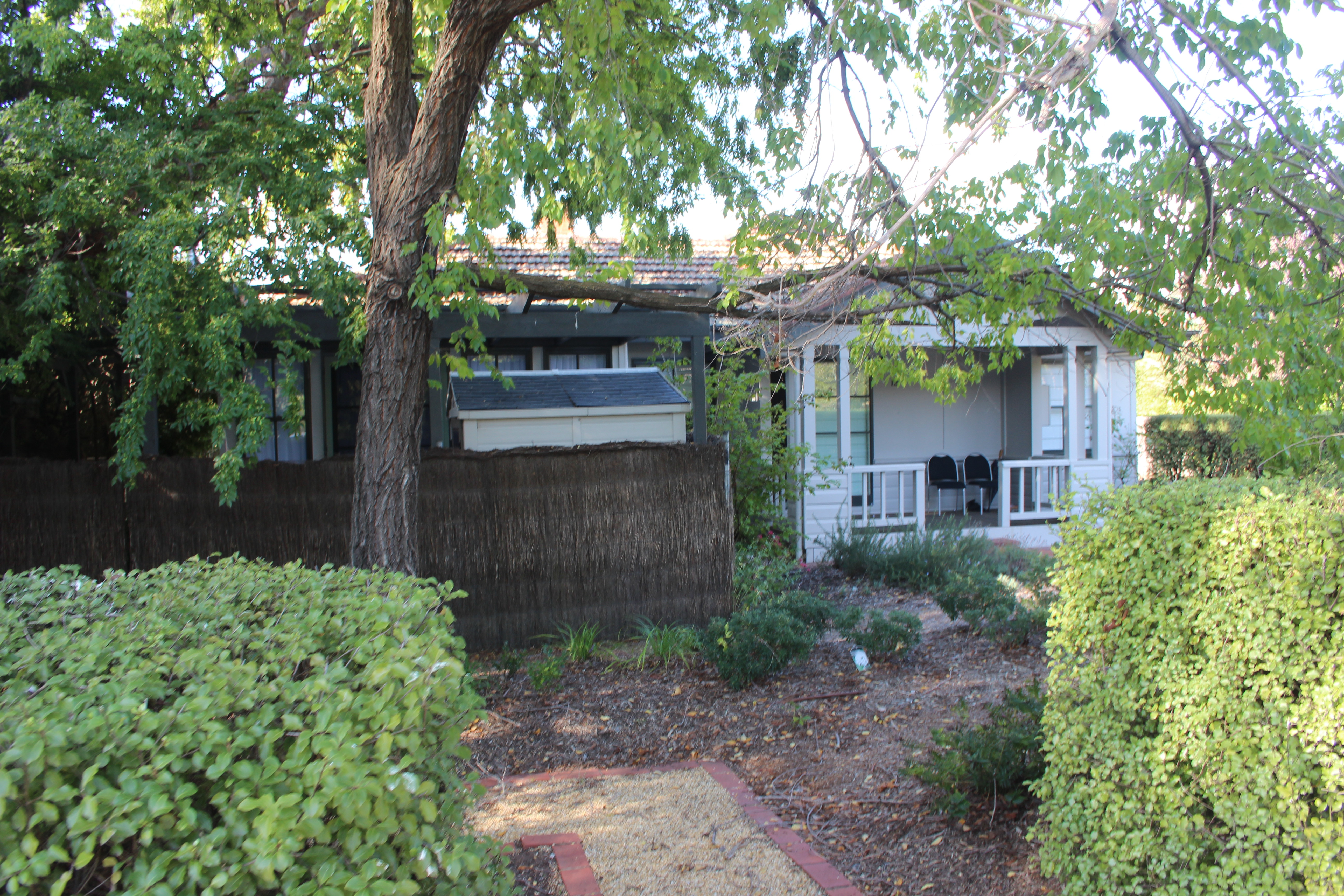 Corroboree Park Housing Precinct house, Lewis St or Hargraves Cres